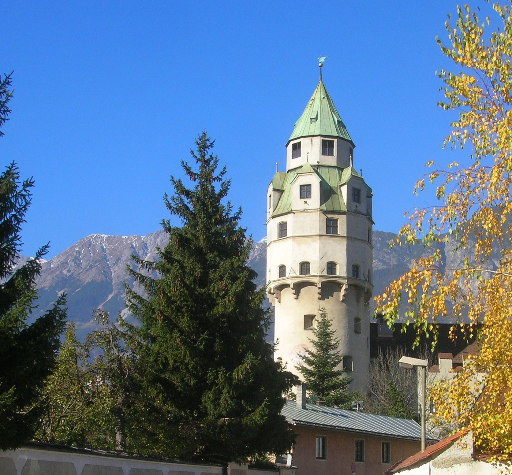 Münzturm ('coin tower') in Hall in Tirol